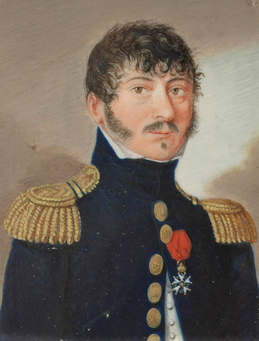 Miniature of Armand Philippon Created by Friedrich Karl Rupprecht (1779–1831) in 1807